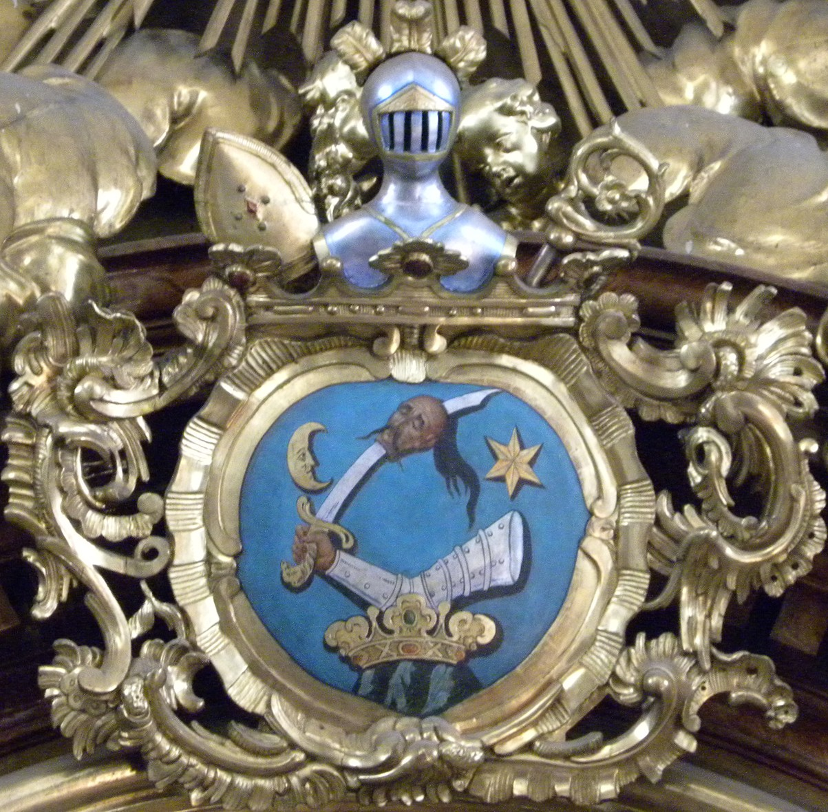 Coat of arms of János Okolicsányi, bishop of Oradea Mare, Romania (1734 - 1836). Main altar in Holy Trinity Church, Trnava.